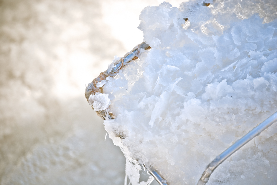 Flor De Sal ArtSal sieve for harvesting